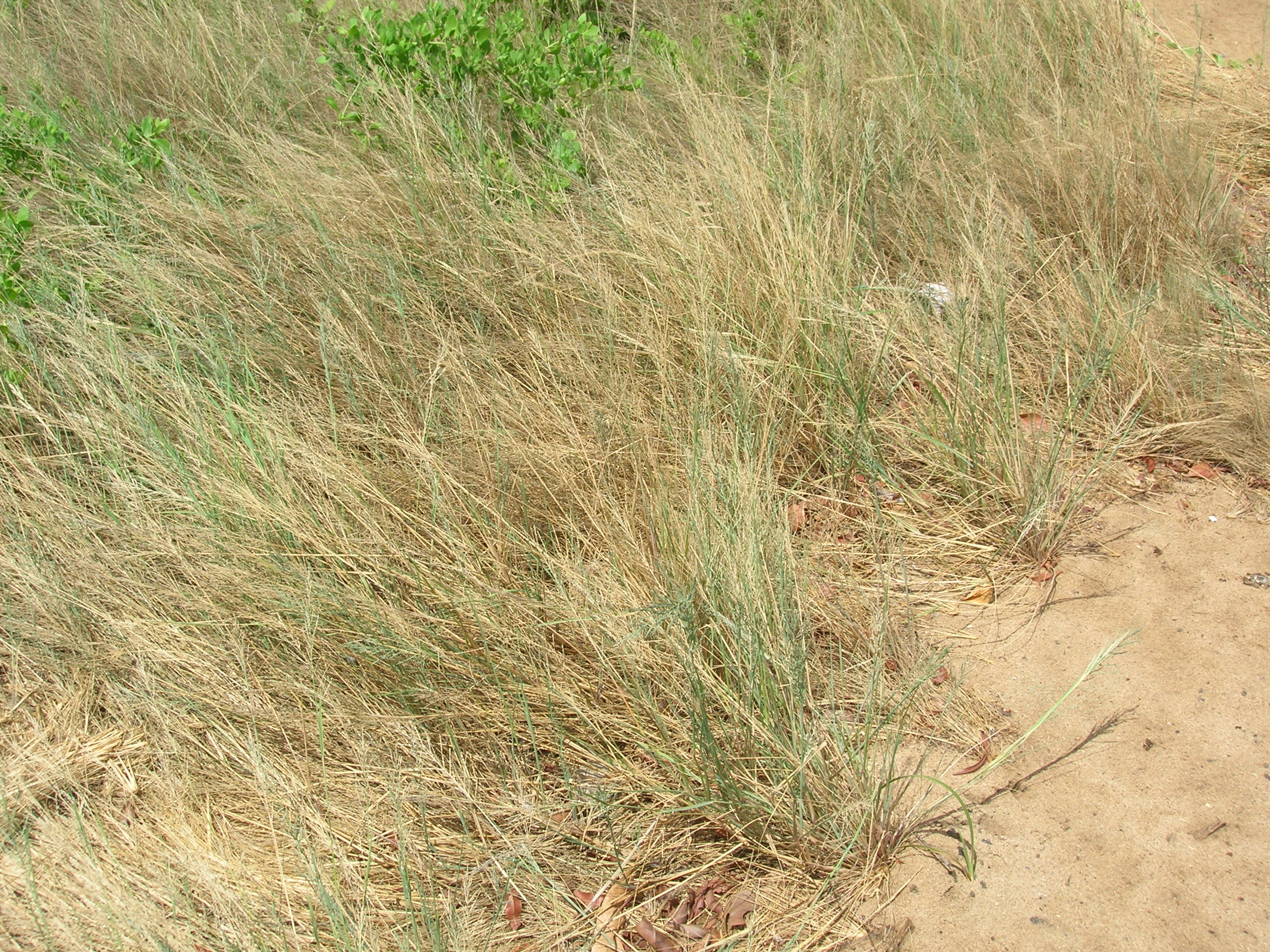 Leptochloa fusca subsp. uninervia (habit). Location: Maui, Waiohuli Keokea